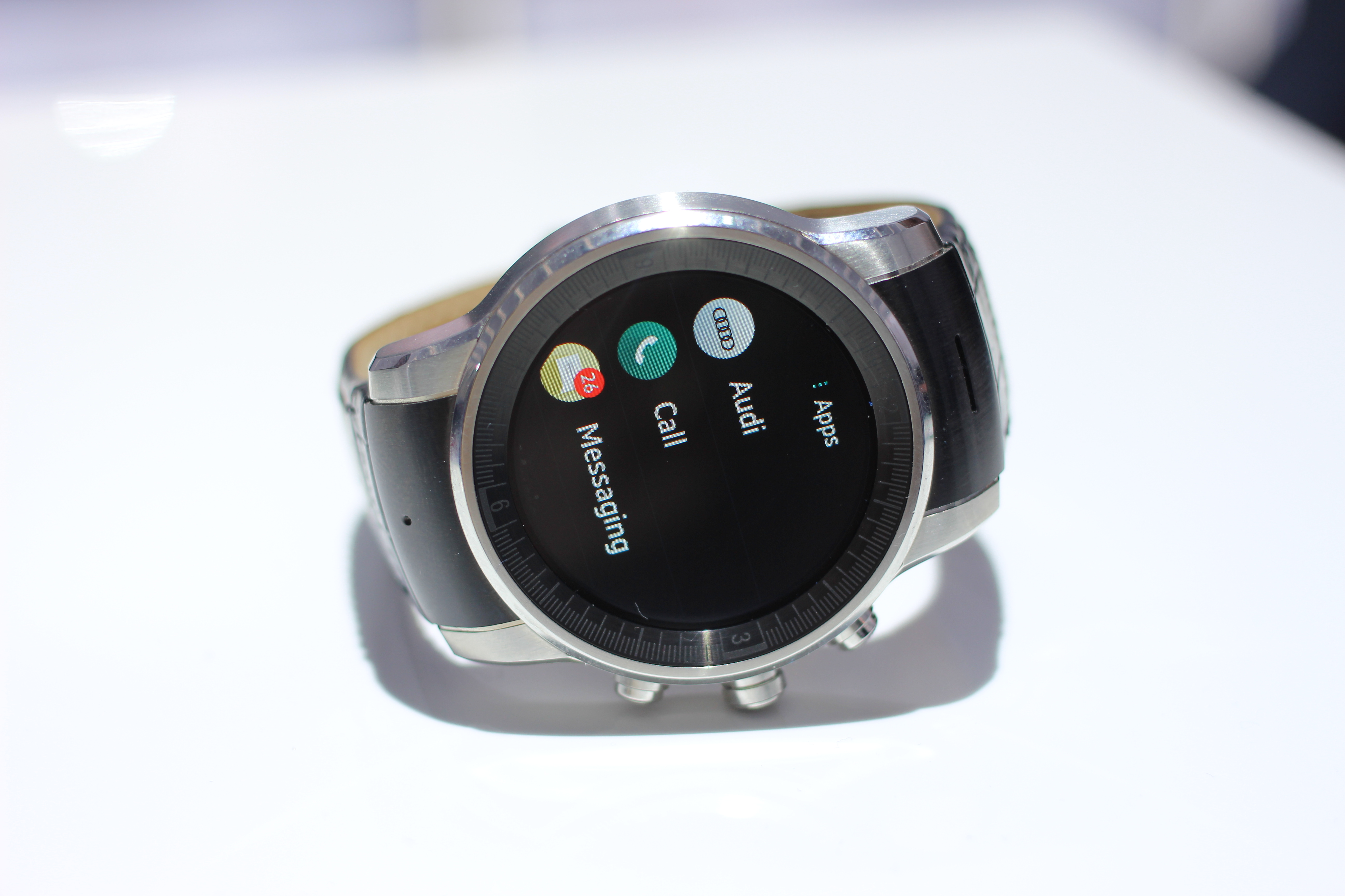 Audi/LG WebOS Smartwatch Prototype